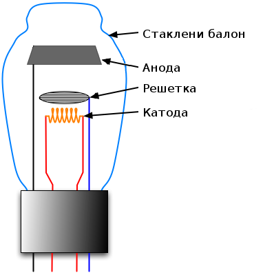 Triode construction, showing parts in serbian language.